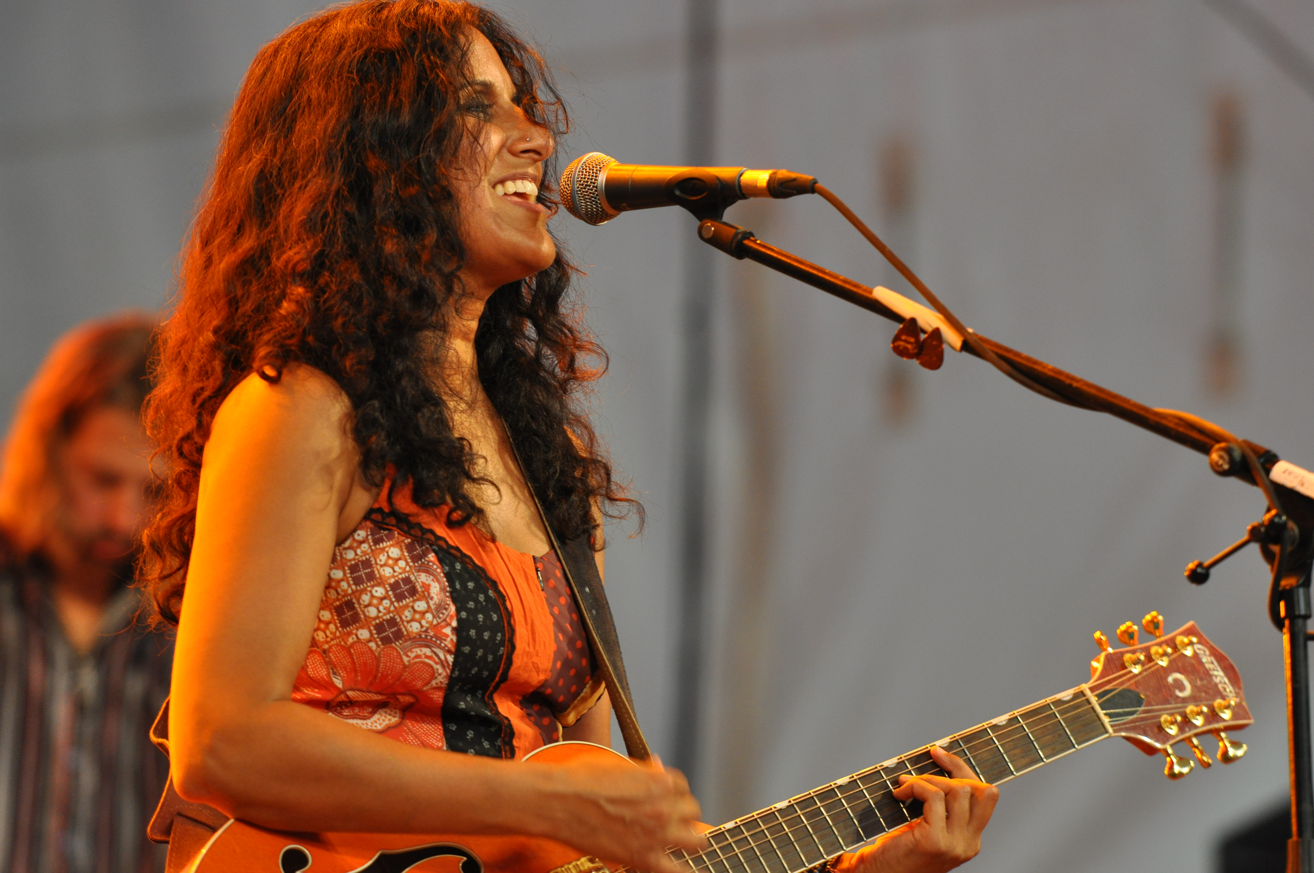 Rupa & The April Fishes (USA), appearance at the 12th World Music Festival "Horizonte" 2014 at the fortress of Ehrenbreitstein, Koblenz (Germany)